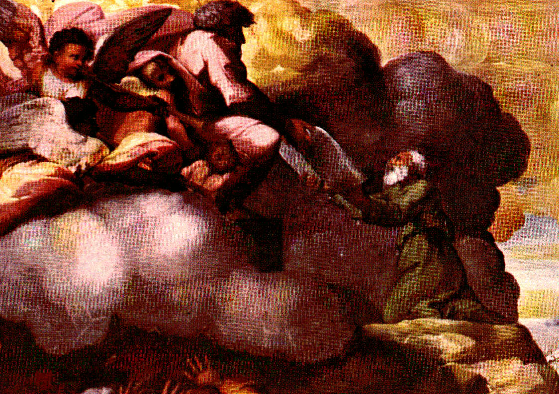 Moses Receiving the Tablets of the Law, by Raphael, in the Palazzi Pontifici, Vatican